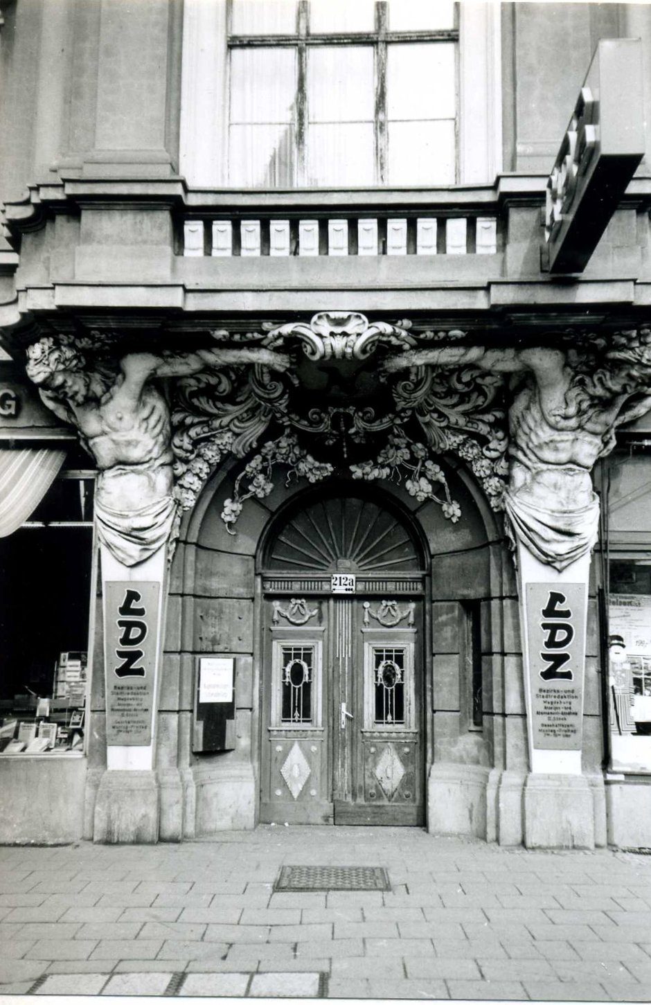 The wonderful entrance of the LDZ Newspaper in Brite Strasse. nr 212A. Date 1880s?? This newspaper with main office in Halle, lasted only another 6 weeks or so until the 30 June 1990 (the end of the DDR currency, the Mark) when it became a subtitle of the Hallesches Tageblatt, and later the Leipziger Volkszeitung, which itself only lasted until the end of 1995, after slightly over 50 years of existence. The LDZ was the organ of the Liberal Democratic Party - Die Liberal-demokratische Partei Deutschlands, LDPD - founded in 1945 by the former Reichs Minister Dr Wilhelm Kuelz. The main national organ of the LDPD was Der Morgen , from the publisher of the same name, but was published alongside the LDZ, the Norddeutsche Zeitung, the Sächsische Tageblatt and the Thüringische Landeszeitung. building now houses the Volksbank Magdeburg eG